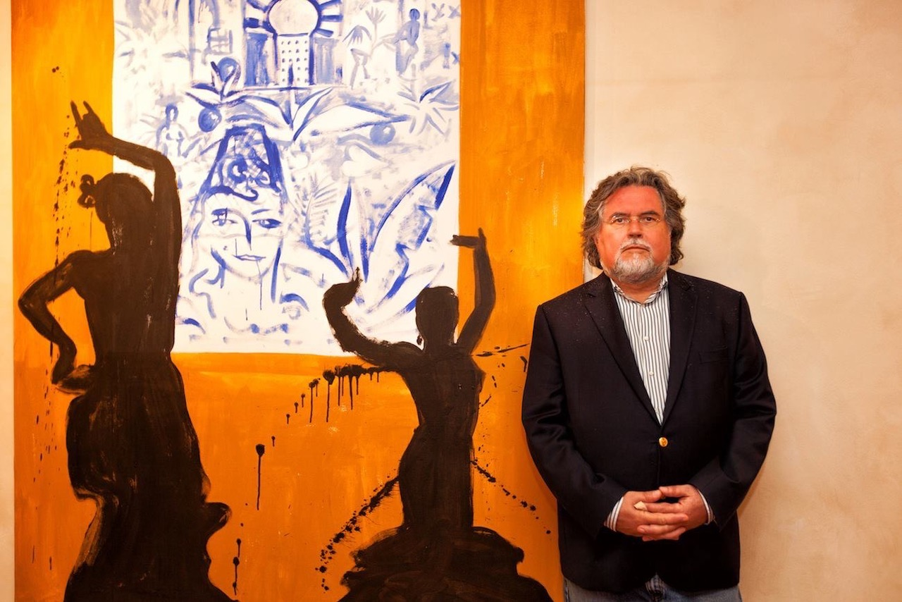 Stefan Szczesny at the Museum of Contemporary Art in Seville